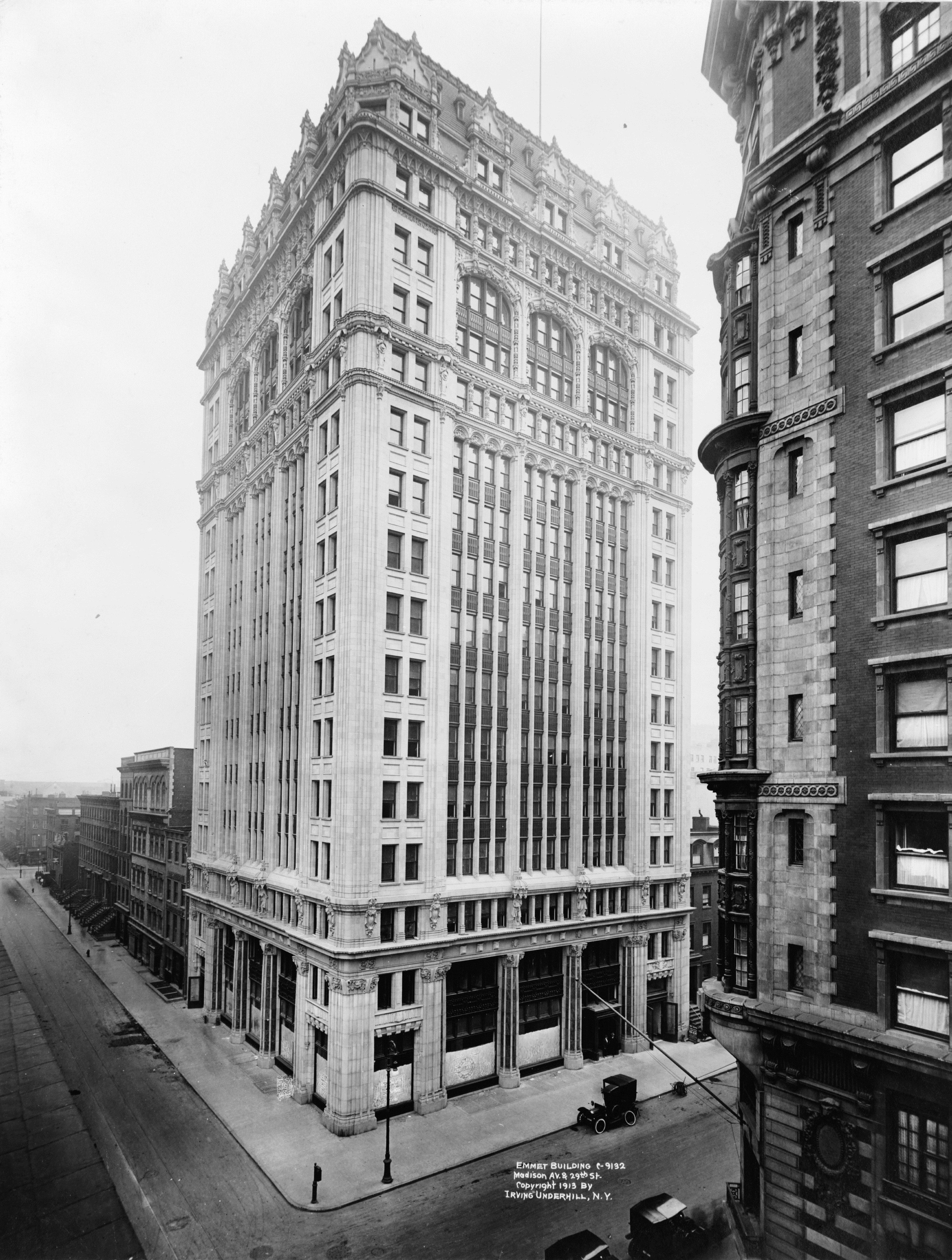 Title: Emmet Building, 9132 Madison Av. & 29th St. / Irving Underhill, N.Y. Abstract/medium: 1 photographic print.